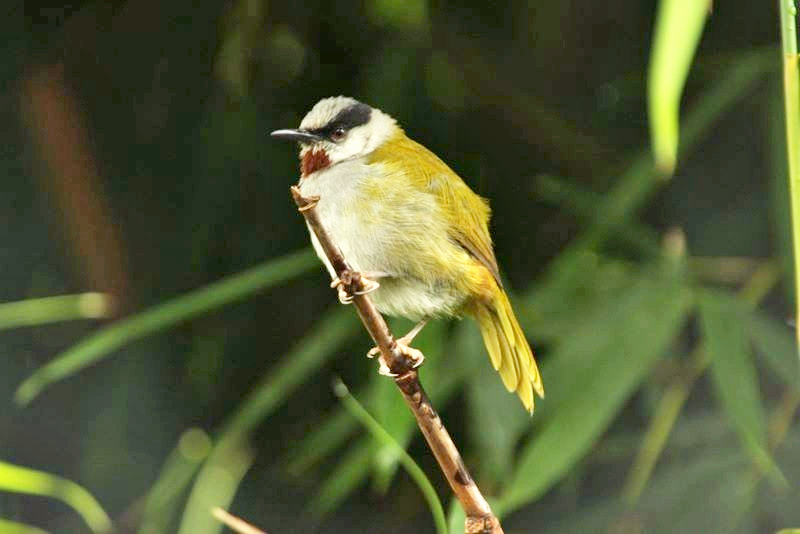 A Grey-capped Warbler in East Africa.